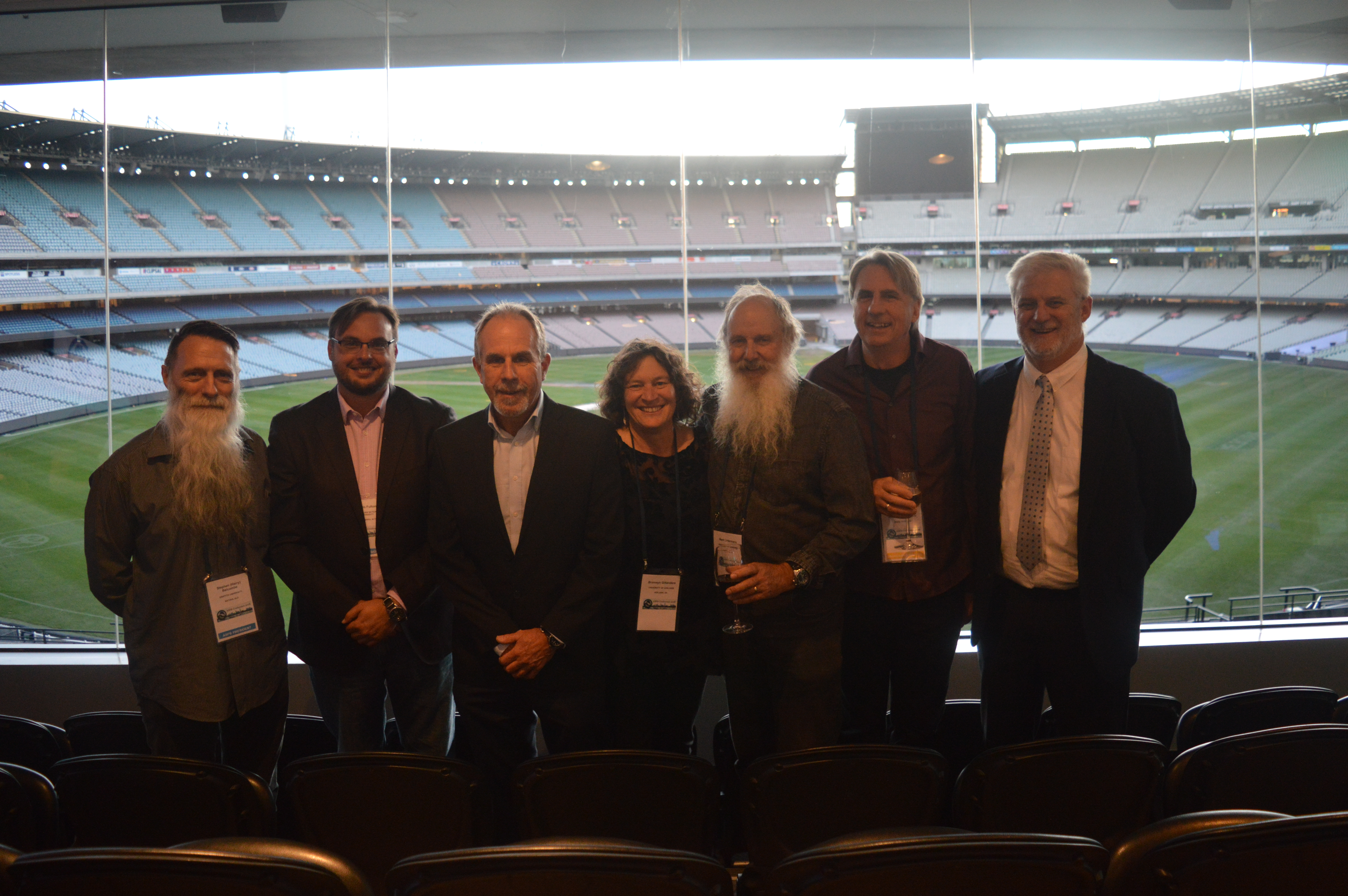 Presidents (past and present) of the Australian Society for Fish Biology (ASFB), photographed at 2018 ASFB conference in Melbourne, Victoria, with the Melbourne Cricket Ground in the background. From left to right: Harry Balcombe (current President), Chris Fulton (President 2015-17), Gary Jackson (2013-15), Bronwyn Gillanders (2012-13), Mark Lintermans (2005-07), John Koehn (2001-03), Andrew Sanger (1999-2001).